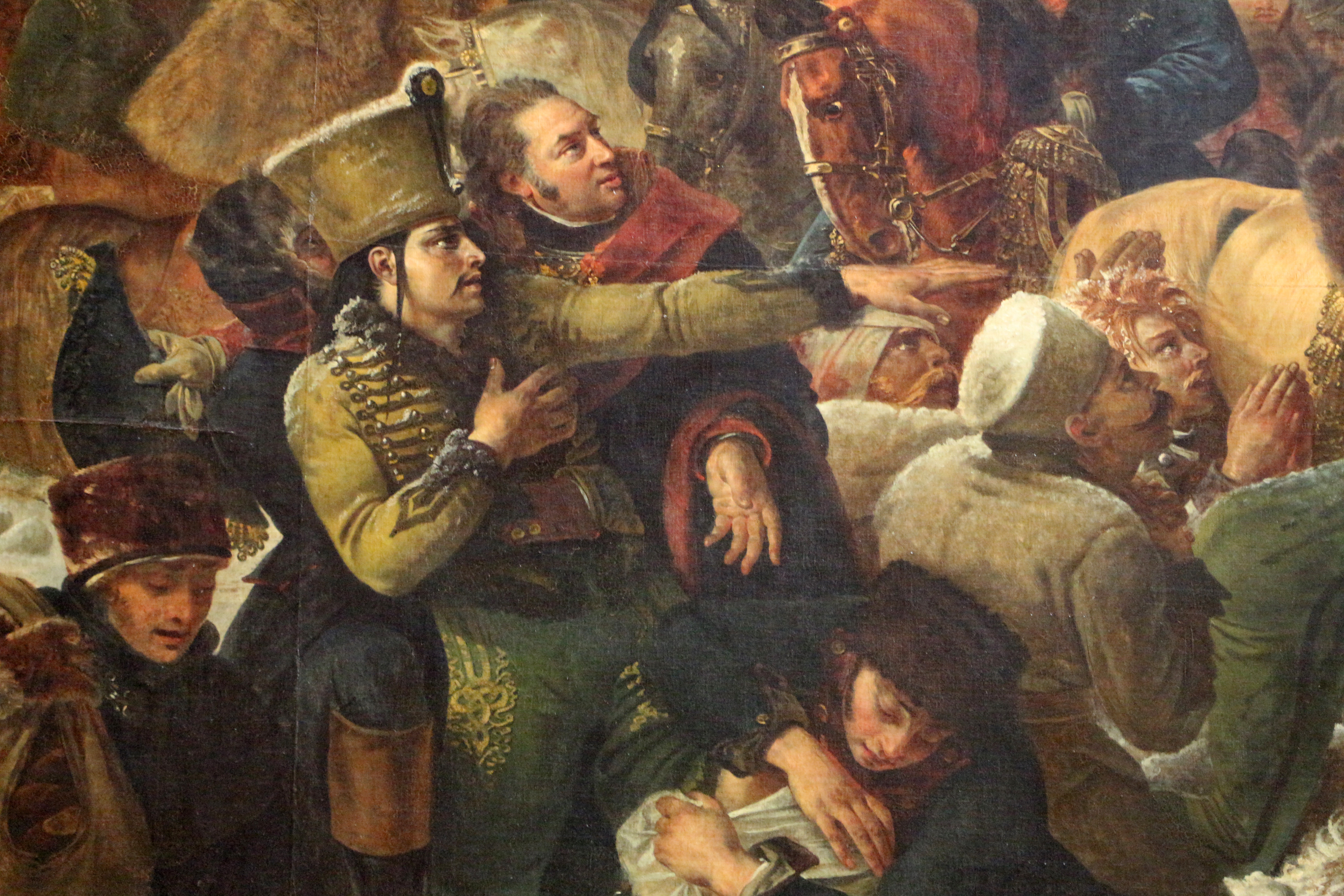 French paintings in the Louvre